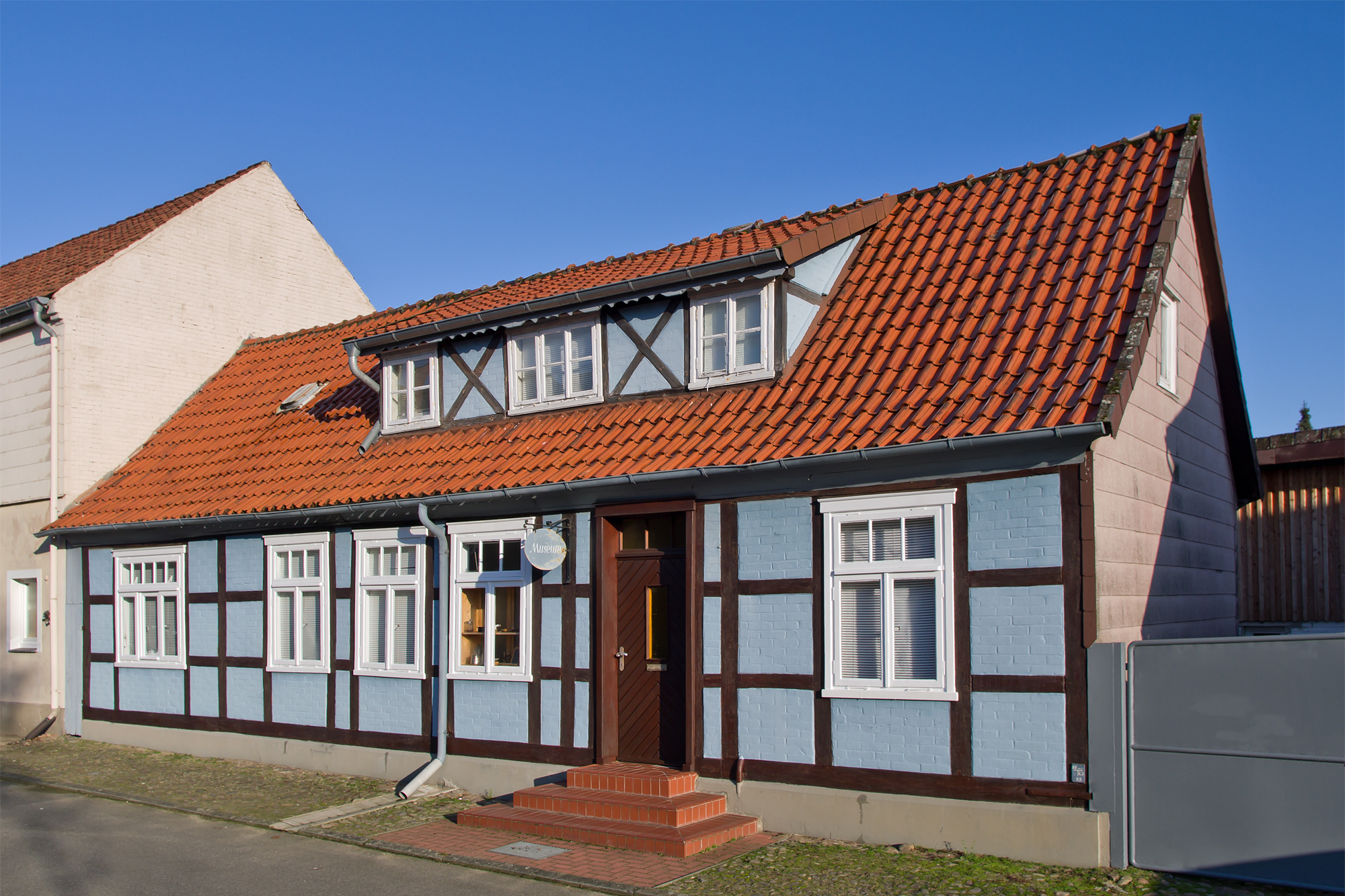 Museum "Das Blaue Haus", building "Kapellenstrasse 7" in Clenze (district Lüchow-Dannenberg, northern Germany).